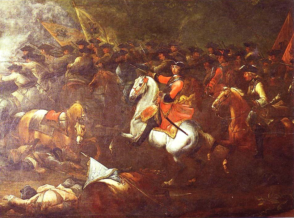 Detail of the painting Battle of Höchstädt (Blenheim) 1704 by August Querfurt, which shows the Prince Eugene of Savoy (1663-1736) fighting next to Carl Alexander of Wüettemberg (1684-1737), wo commissioned this work, castle Ludwigsburg.